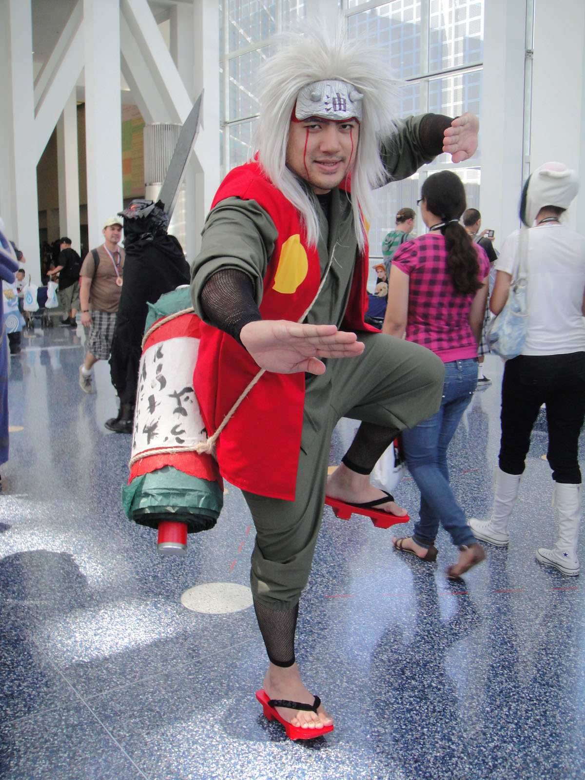 JIraiya from Naruto cosplay at Anime Expo 2011 in the Los Angeles Convention Center, Los Angeles, California, USA